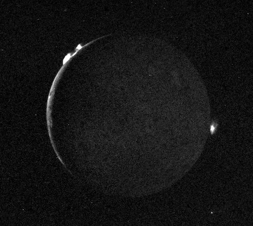 Voyager 2 took this picture of Io July 10, 1979, from a range of 1.2 million kilometers (750,000 miles). It was one of the last of an extensive sequence of "volcano watch" pictures planned as a time lapse study of the nearest of Jupiter's Galilean satellites. The sunlit crescent of Io is seen at the left, and the night side illuminated by light reflected from Jupiter can also be seen. Three volcanic eruption plumes are visible on the limb. All three were previously seen by Voyager 1. On the bright limb Plume 5 (upper) and Plume 6 (lower) are about 100 kilometers high, while Plume 2 on the dark limb is about 185 kilometers high and 325 kilometers wide. The dimensions of Plume 2 are about 1 1/2 times greater than during the Voyager 1 encounter, indicating that the intensity of the eruptions has increased during the four-month time interval between the Voyager encounters. The three volcanic eruptions and at least three others have apparently been active at roughly the same intensity or greater for a period of at least four months.